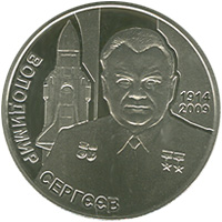 reverse of the commemorative coin "Volodymyr Sergeev"